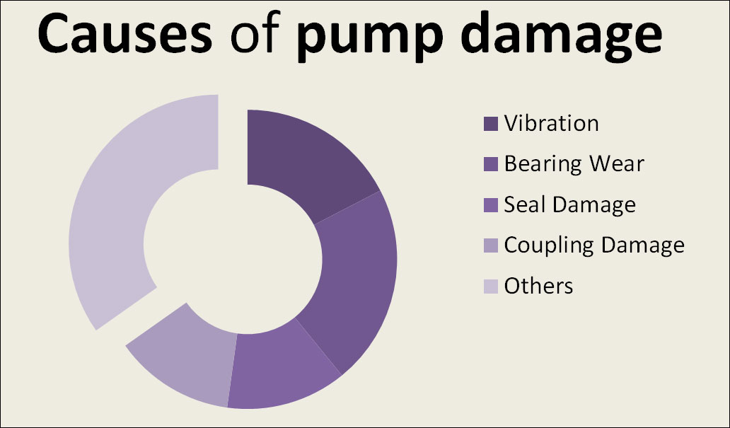 Major causes of pump damage (source IVAC Australia)